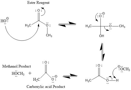 Ester hydrolysis under basic conditions